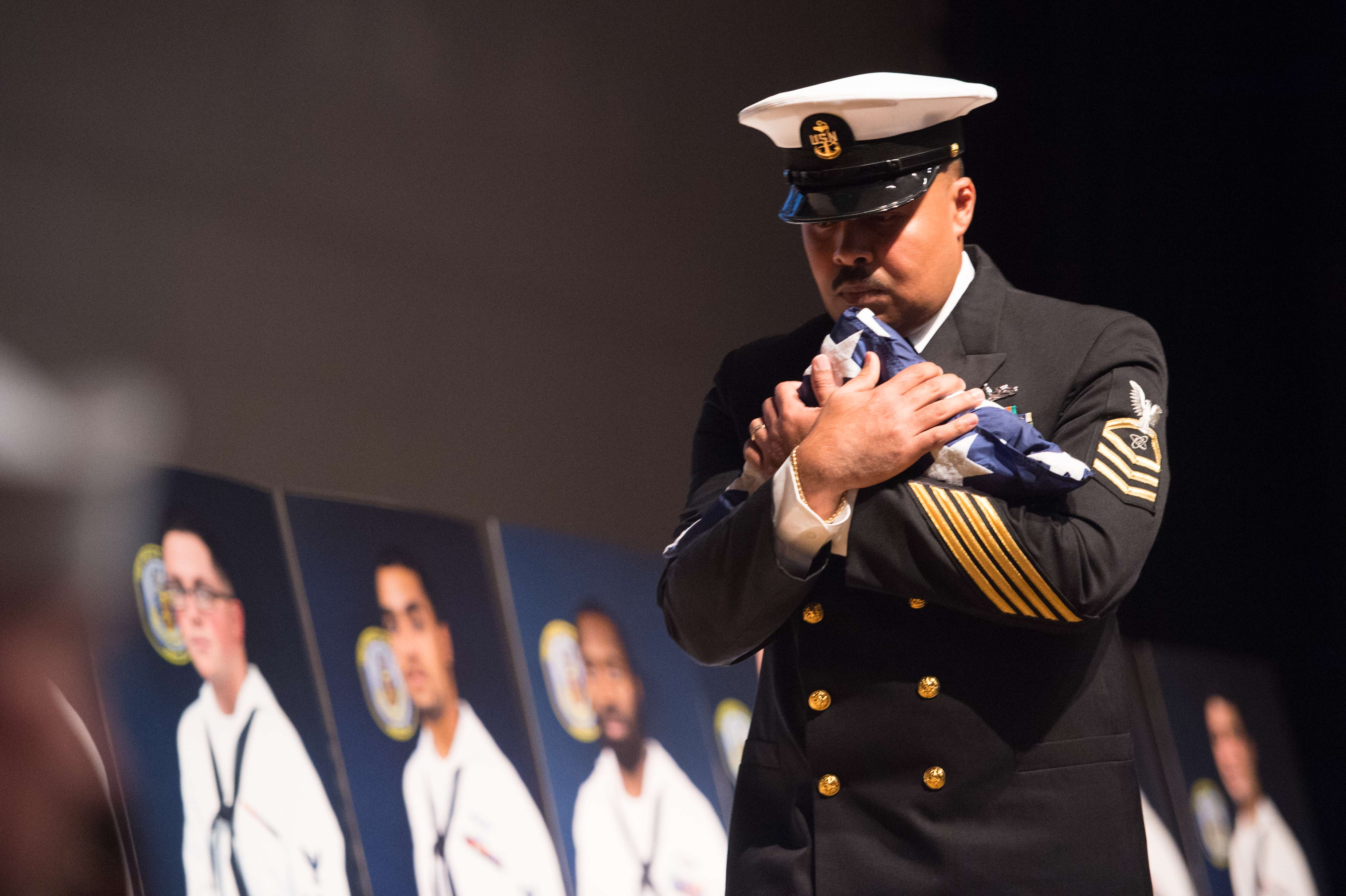 171004-N-GP548-083 YOKOSUKA, JAPAN (Oct. 04, 2017) Chief Electronics Technician Victor Grandados carries a folded flag to present to family members during the USS John S. McCain Memorial Service at the Fleet Activities Yokosuka Fleet Theater, Oct. 4, 2017. Family, shipmates, and other Yokosuka community members attended the memorial to honor the 10 USS John S. McCain Sailors who perished following the destroyer's Aug. 21 collision at sea. (U.S. Navy photo by Chief Mass Communication Specialist Elijah G. Leinaar/Released)